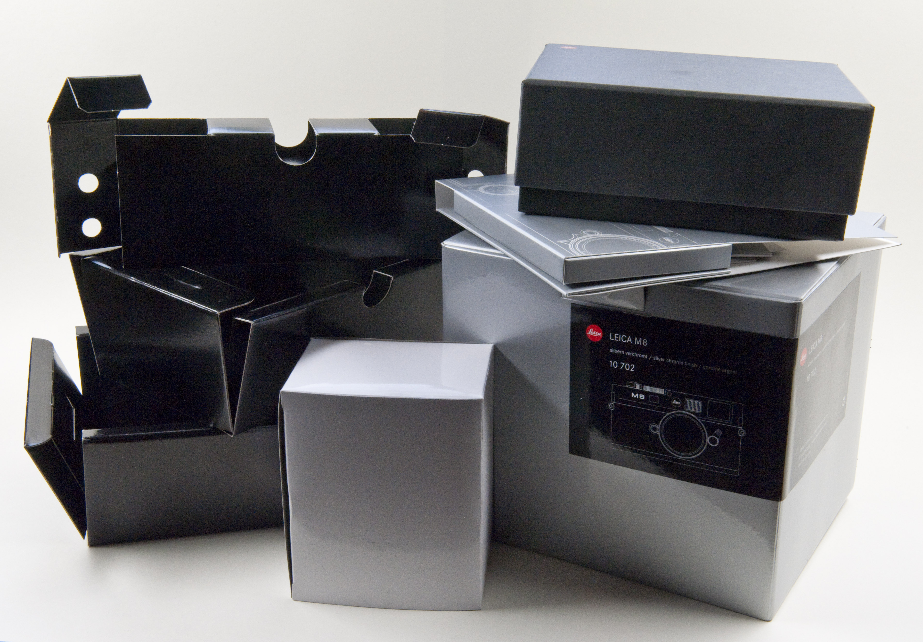 Leica M8 wrapping